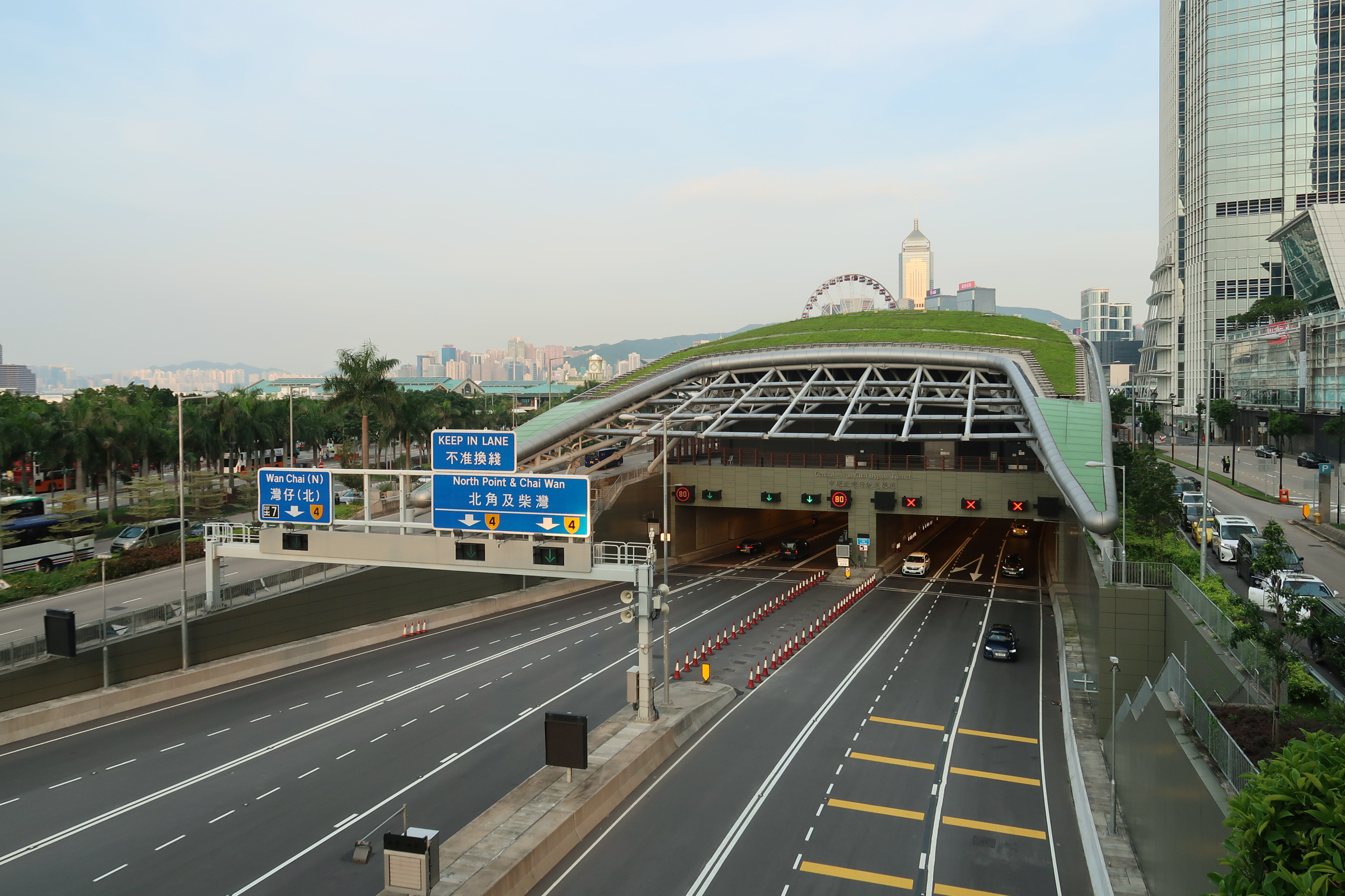 Central-Wan Chai Bypass Entrance